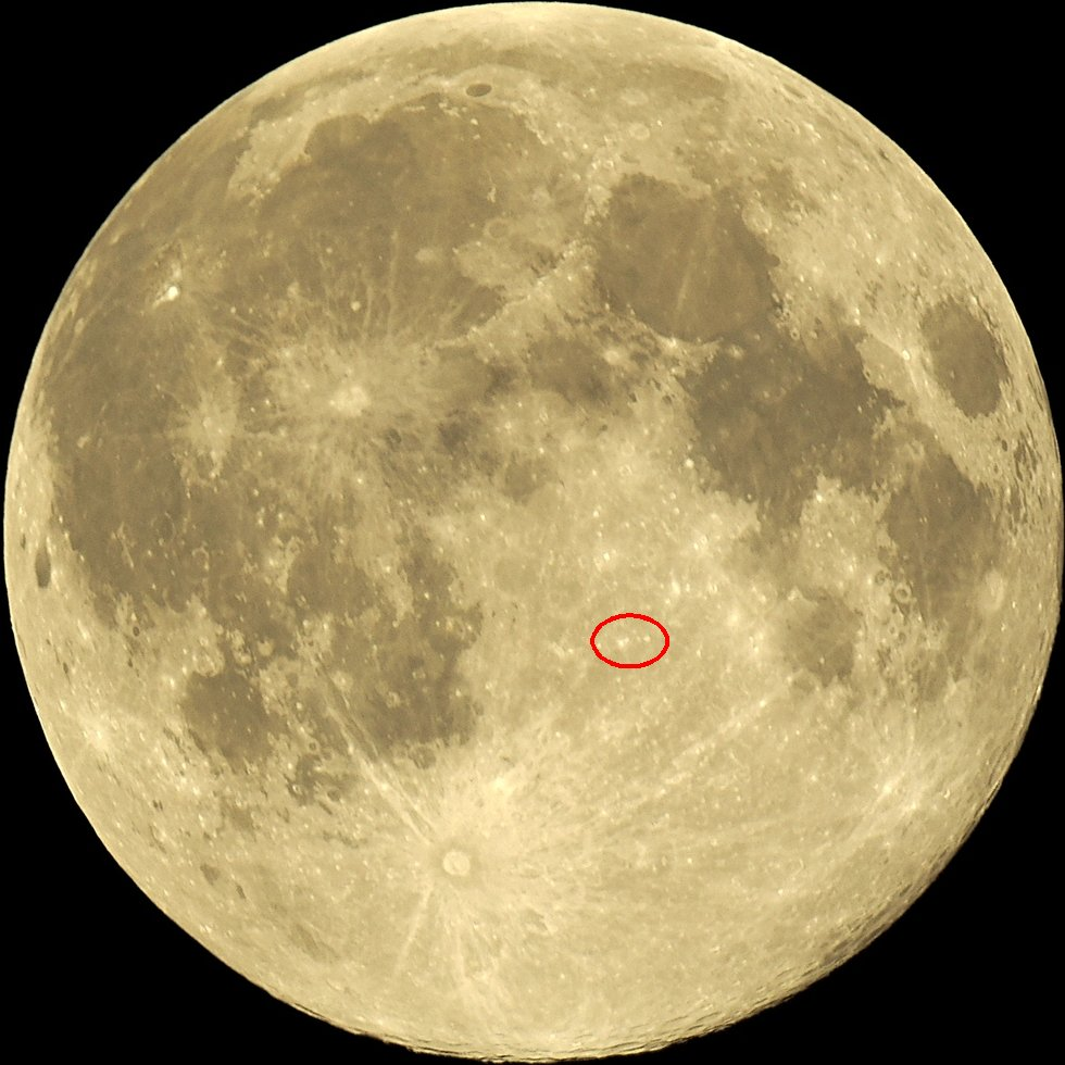 Location of craters Abenezra and Azophi on the Moon